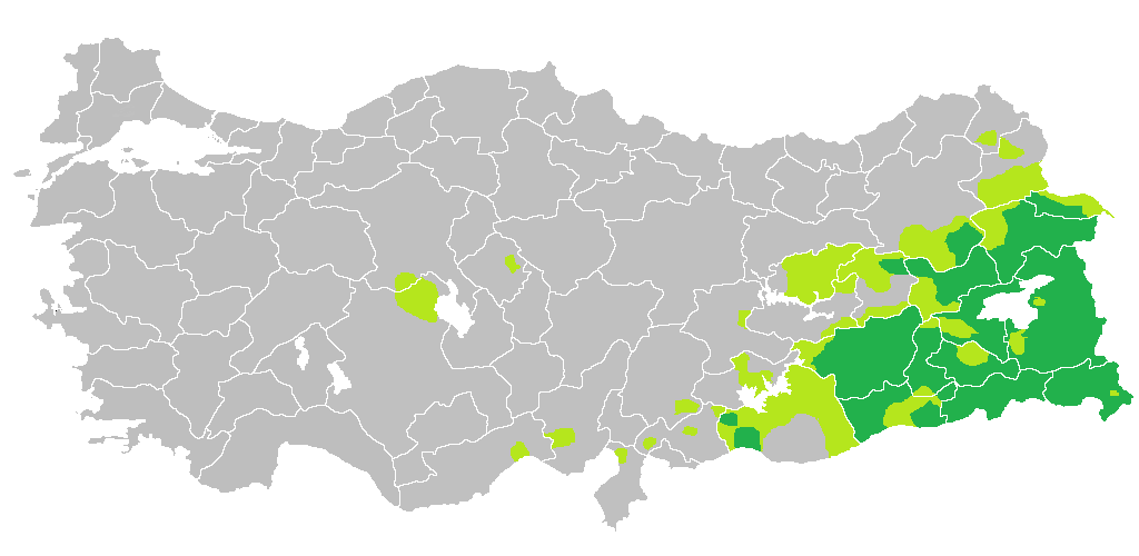 Kurdish settlements in the majority and minority